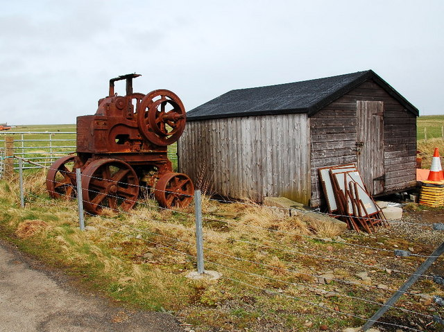 Heath-Robinson Wangle-Dangle, Eday Stranded by the receding tide of progress. Victorian stone breaking equipment made in Leeds and abandoned on Eday.